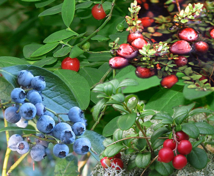 I made it. As the name implies, a selection of vaccinium example species. Clockwise from top right: Cranberries Lingonberries (cowberries) Blueberries Huckleberries (background)